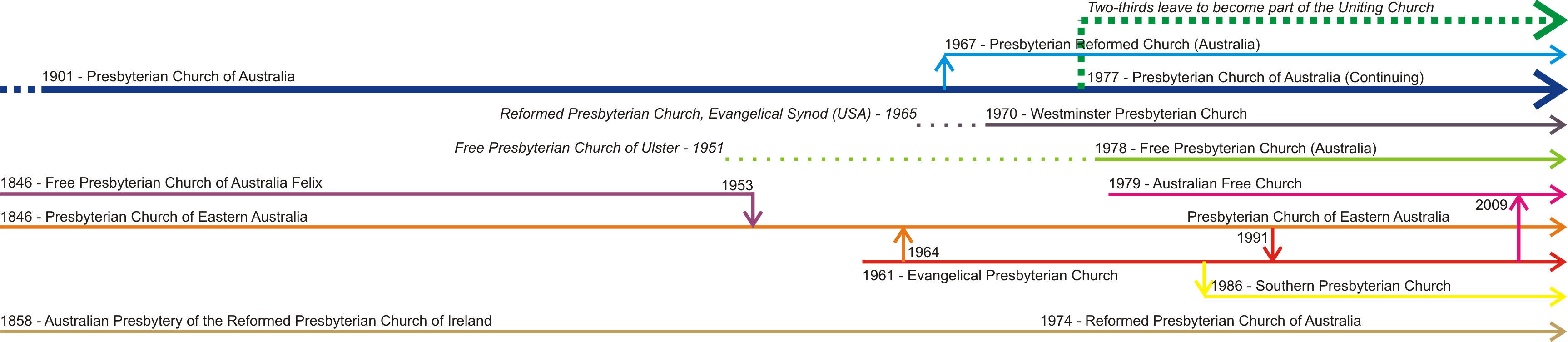 Timeline showing Australian Presbyterian Denominations over the past 100 years and up to 2009. Collated using data found on Wikipedia.